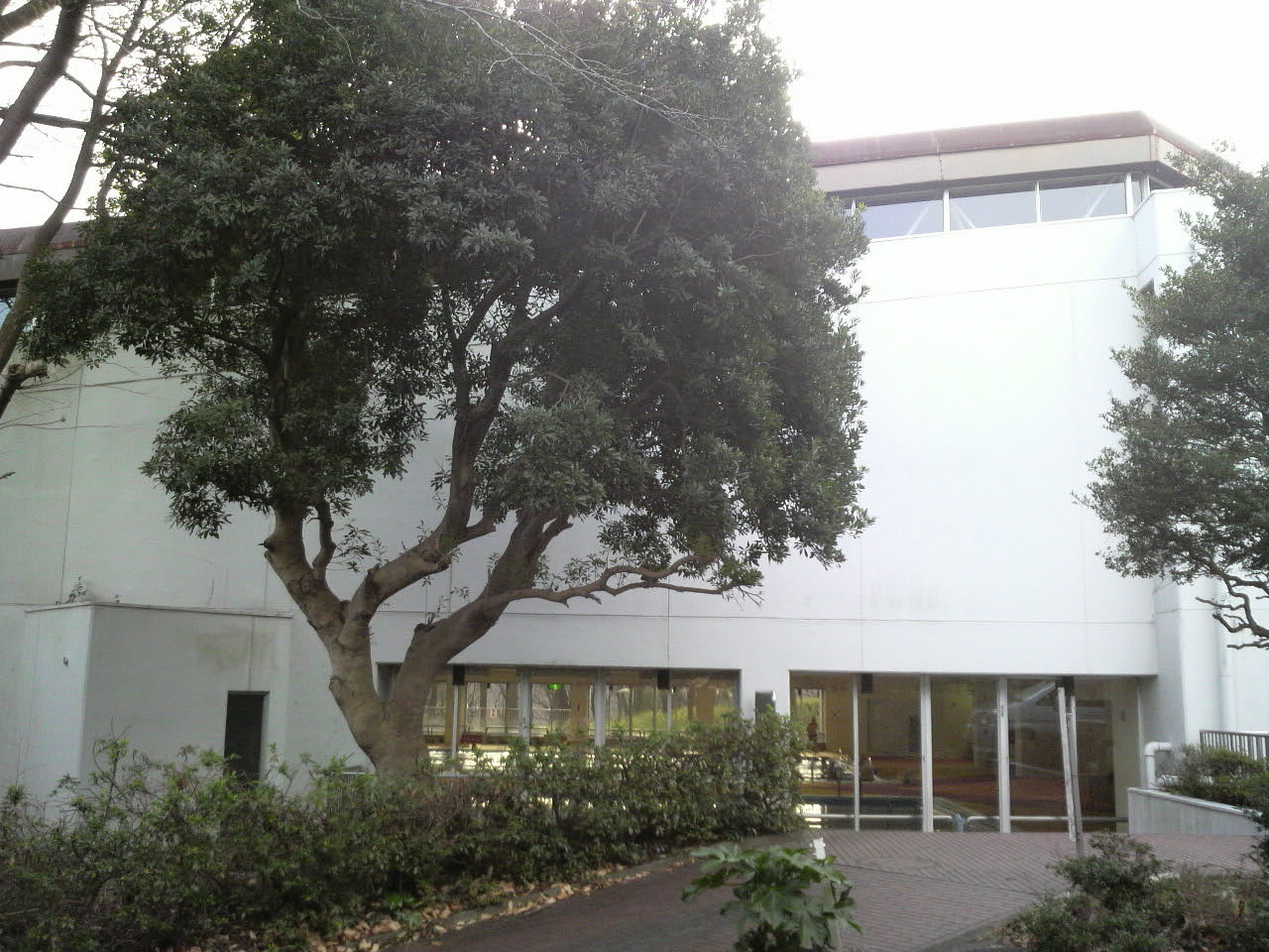 HODOGAYA POOL